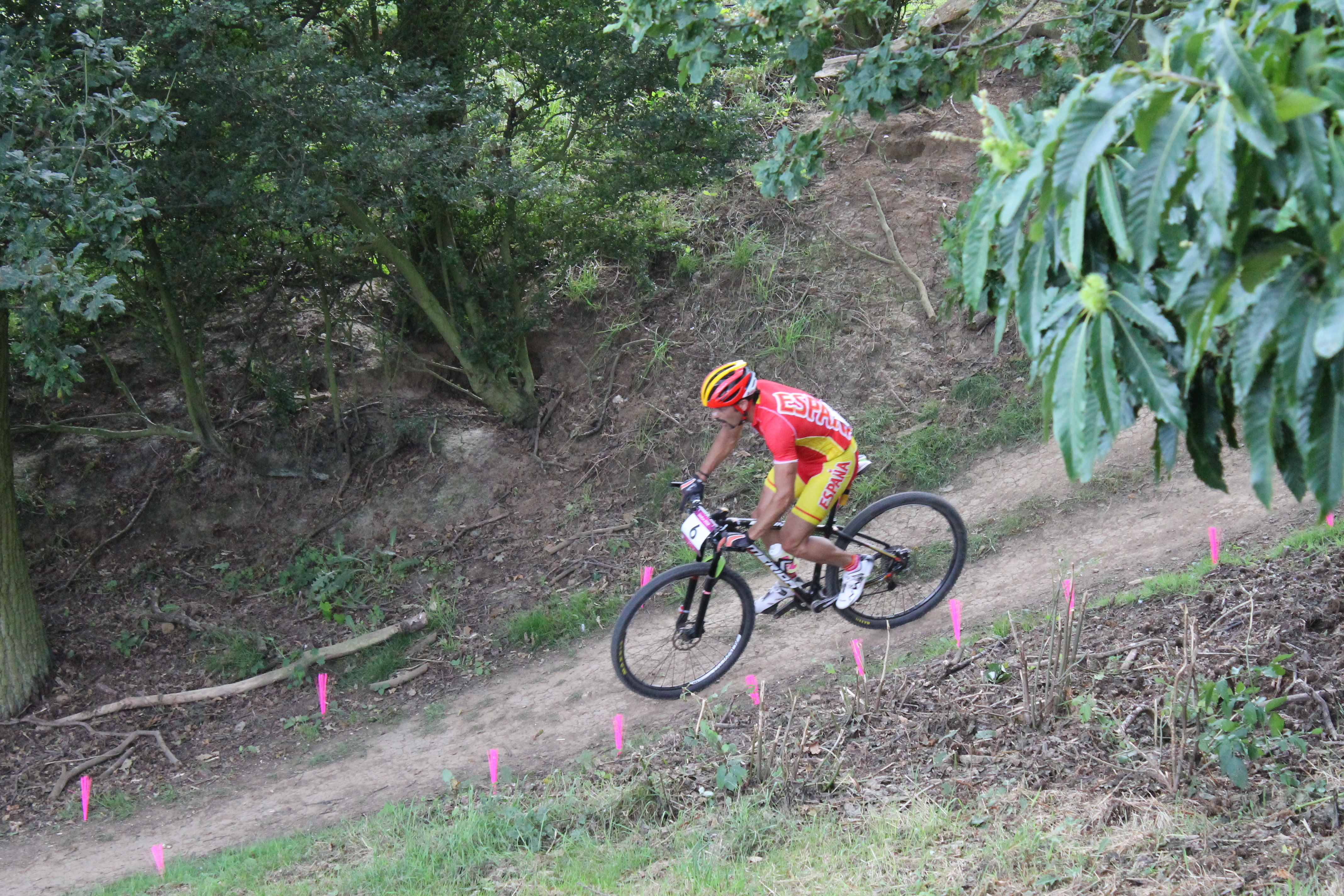 Cycling at the 2012 Summer Olympics – Men's cross-country José Antonio Hermida (6) (ESP) IMG_3981